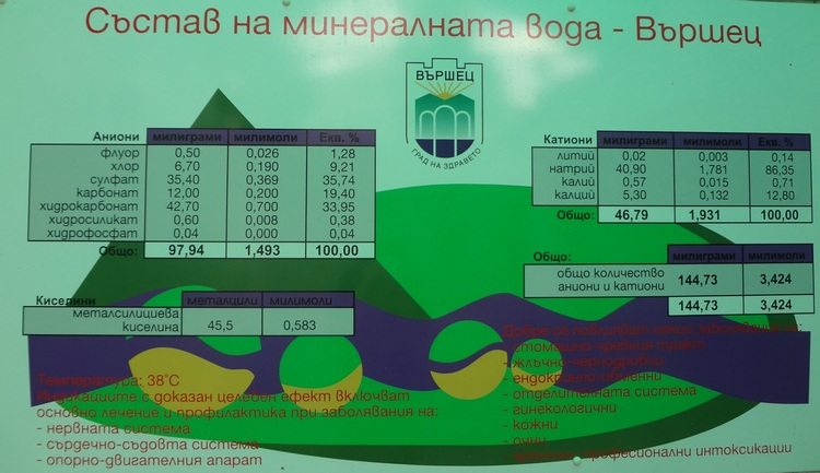 MineralWaterLabel2